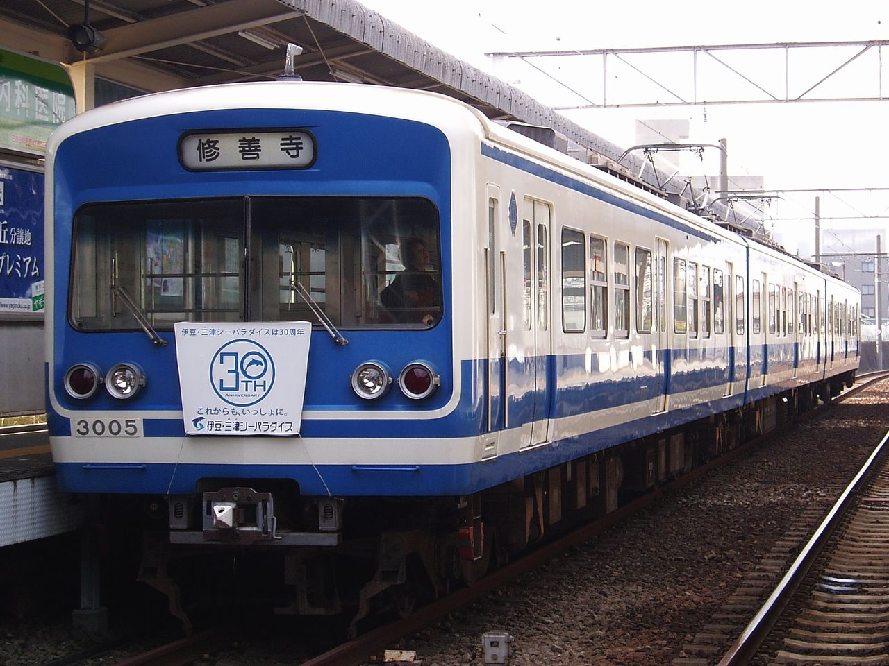 Isuhakone Railway at Mishima Sta. EMU Type 3000 2007.11.26 Photo by Cassiopeia_sweet.